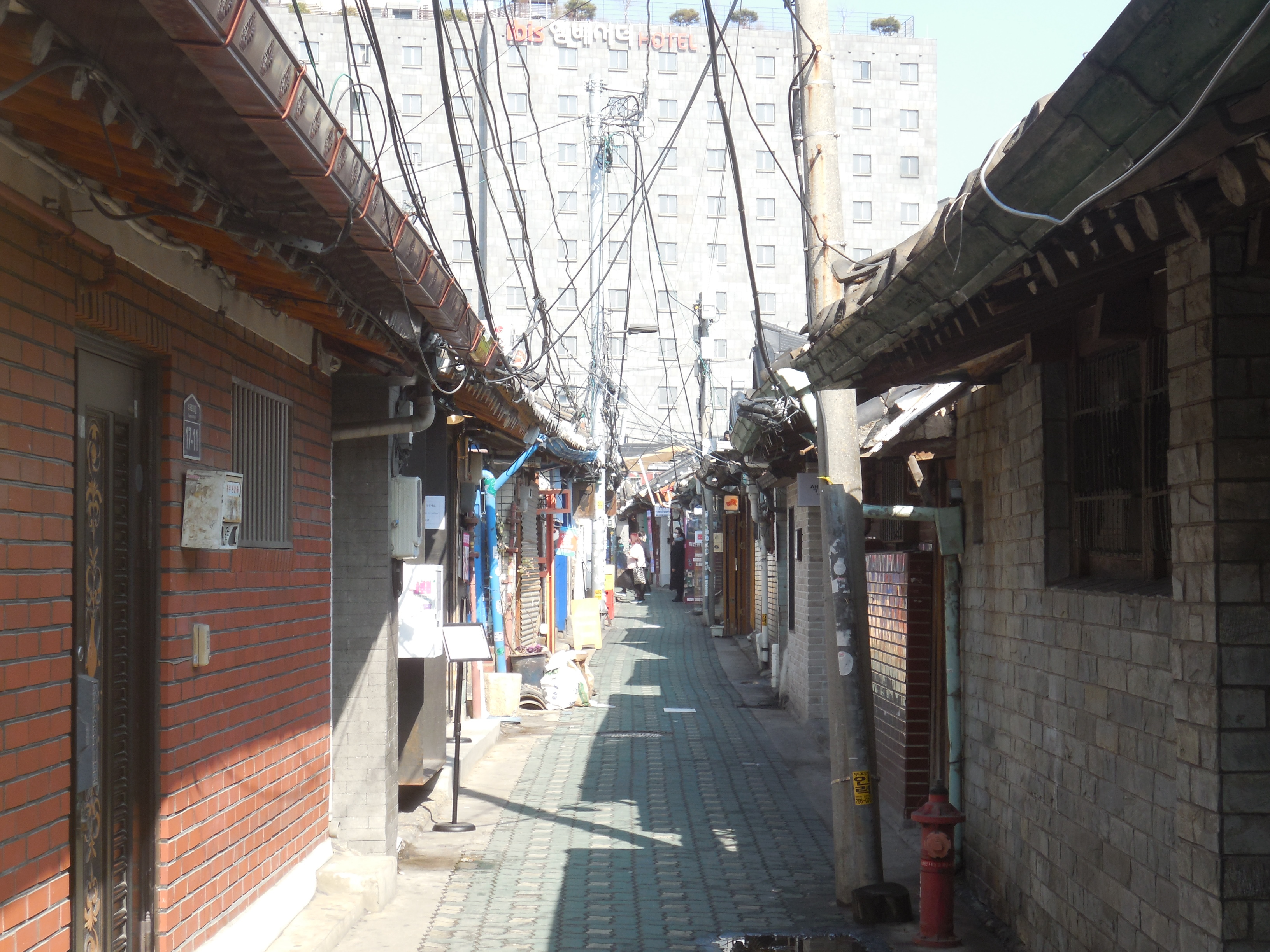 Cityscape of Ikseon-dong, Jongno-gu, Seoul.